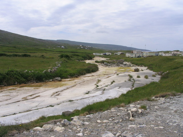 Caher river before Fanore beach The water disappears completely before it reaches the sea. Fanore camp site in the back.